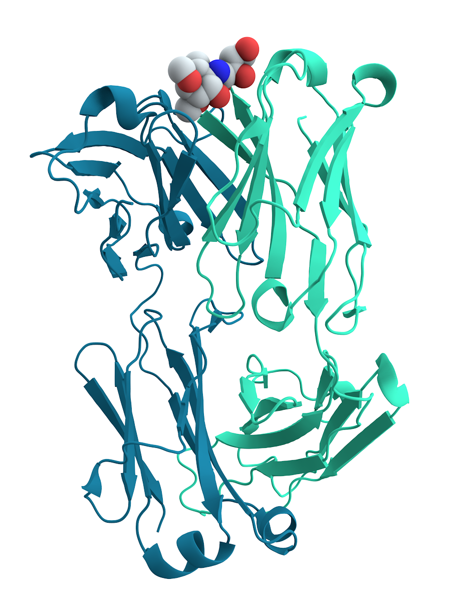 Illustration of a murine anti-cholera antibody with bound carbohydrate antigen. The heavy chain is colored cyan, the light chain is turquoise, and the antigen is shown in van der Waals representation colored by atom type (carbon grey, oxygen red, nitrogen blue). Based on PDB 1F4X